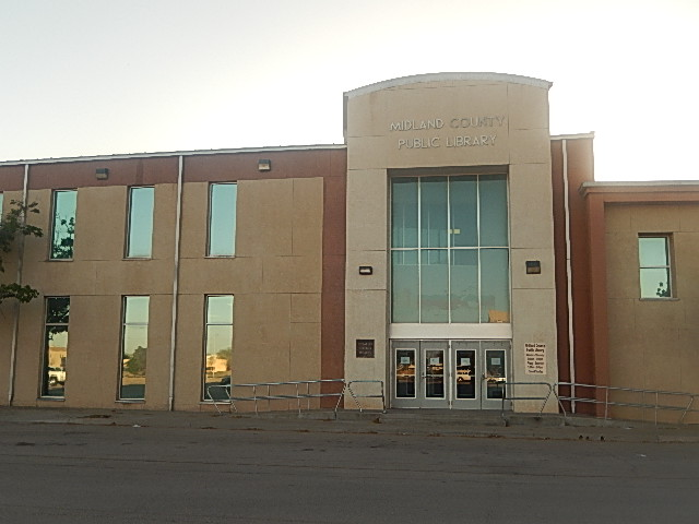 I took photo of Midland County Public Library in Midland, TX, with Nikon camera.